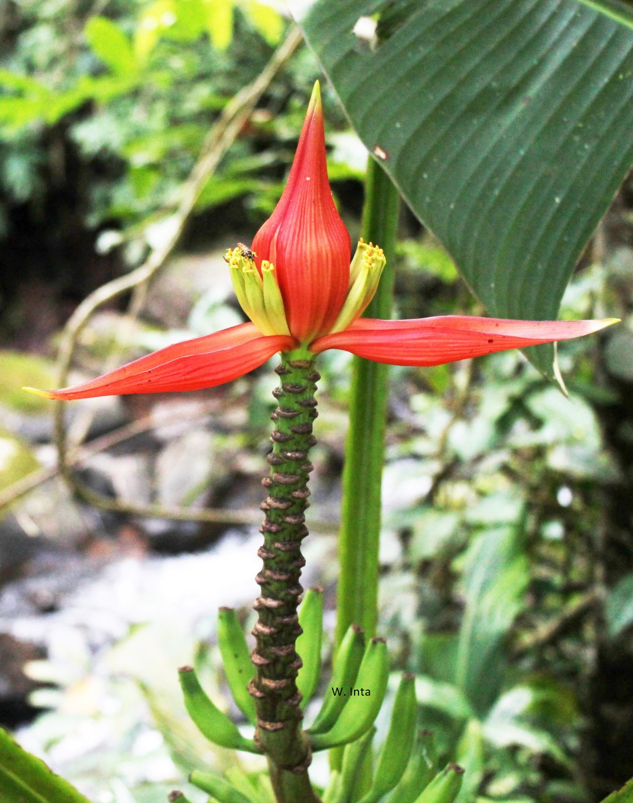 Musa nanensis Swangpol & Traiperm